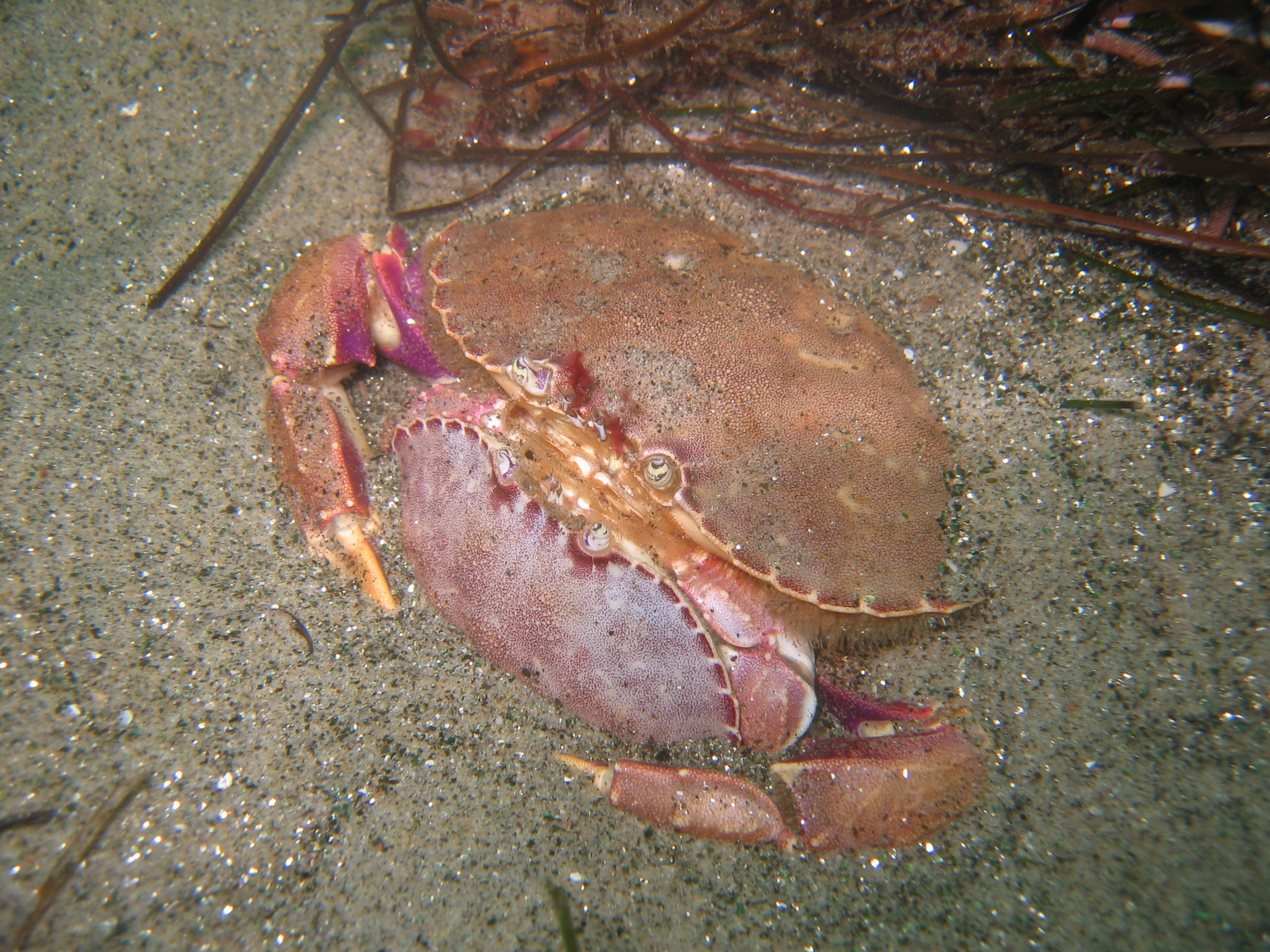 Graceful Crabs (Metacarcinus gracilis) mating. La Jolla, California. Taken by Magnus Kjærgaard.